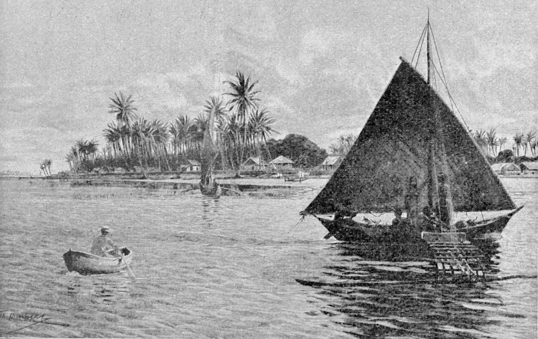 Example of a 'wa' outrigger watercraft in the Marshall Islands / Caroline Islands area. Originally published in a German geography textbook of 1911, over here. Native German readers may wish to add additional information here.